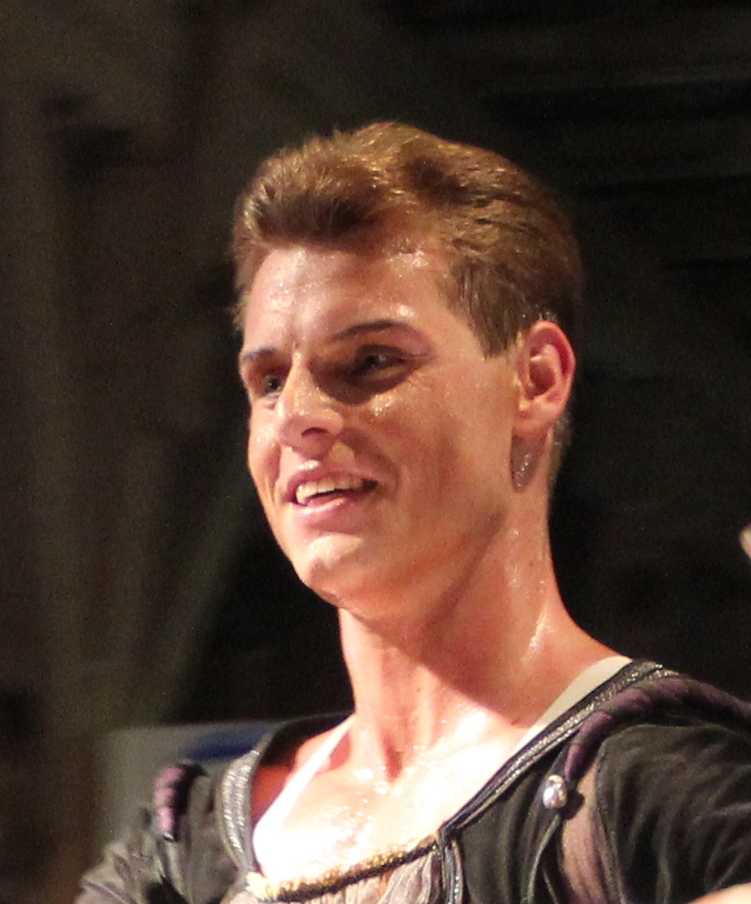 Czech ballet danseur Michal Krčmář, Member of the Finnish National Ballet, now danseur étoile since August 2015.